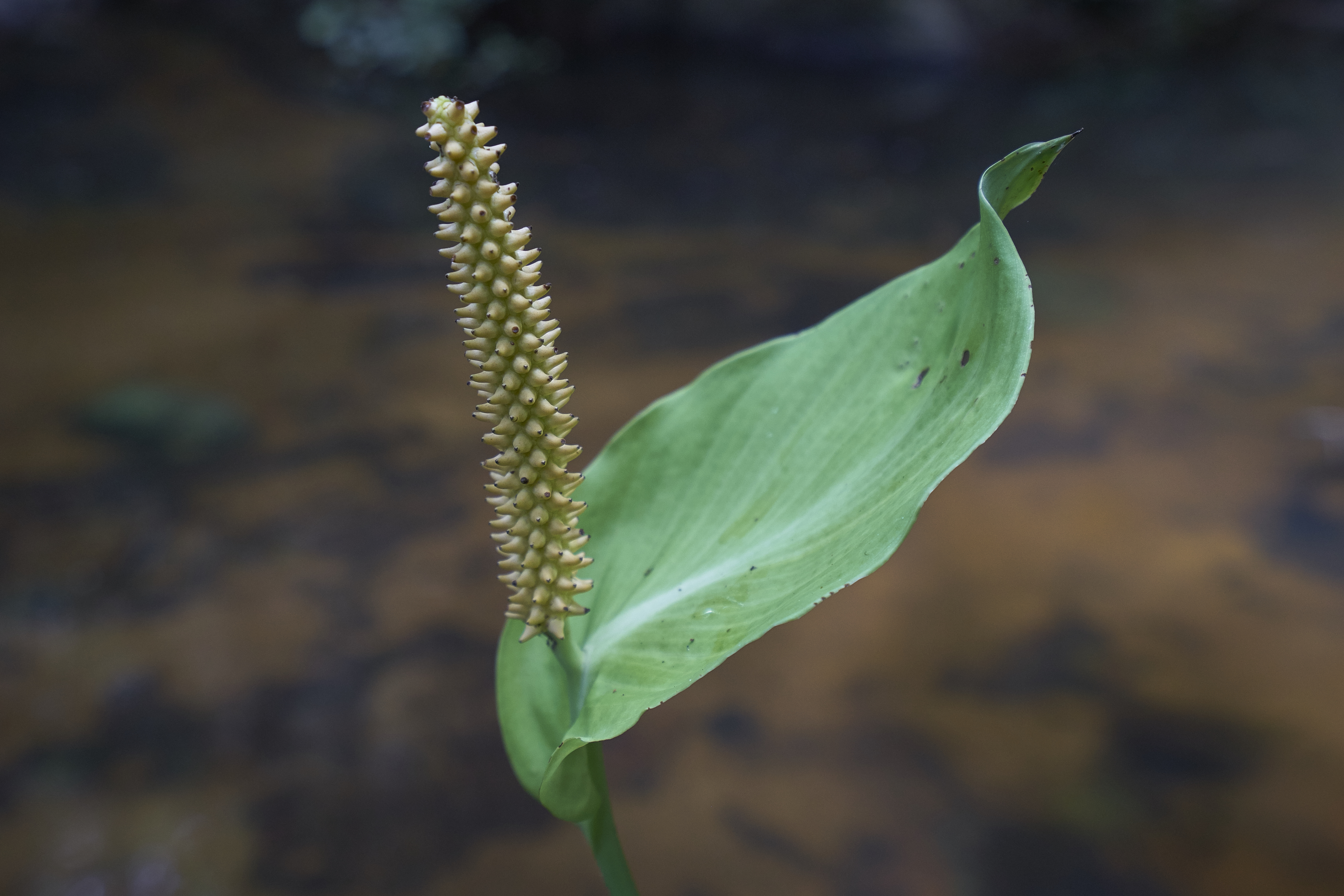 Spathiphyllum blandum (determination not 100% sure) near Rio Frio Cave, Mountain Pine Ridge Forest Reserve, Belize The making of this document was supported by the Community-Budget of Wikimedia Germany.